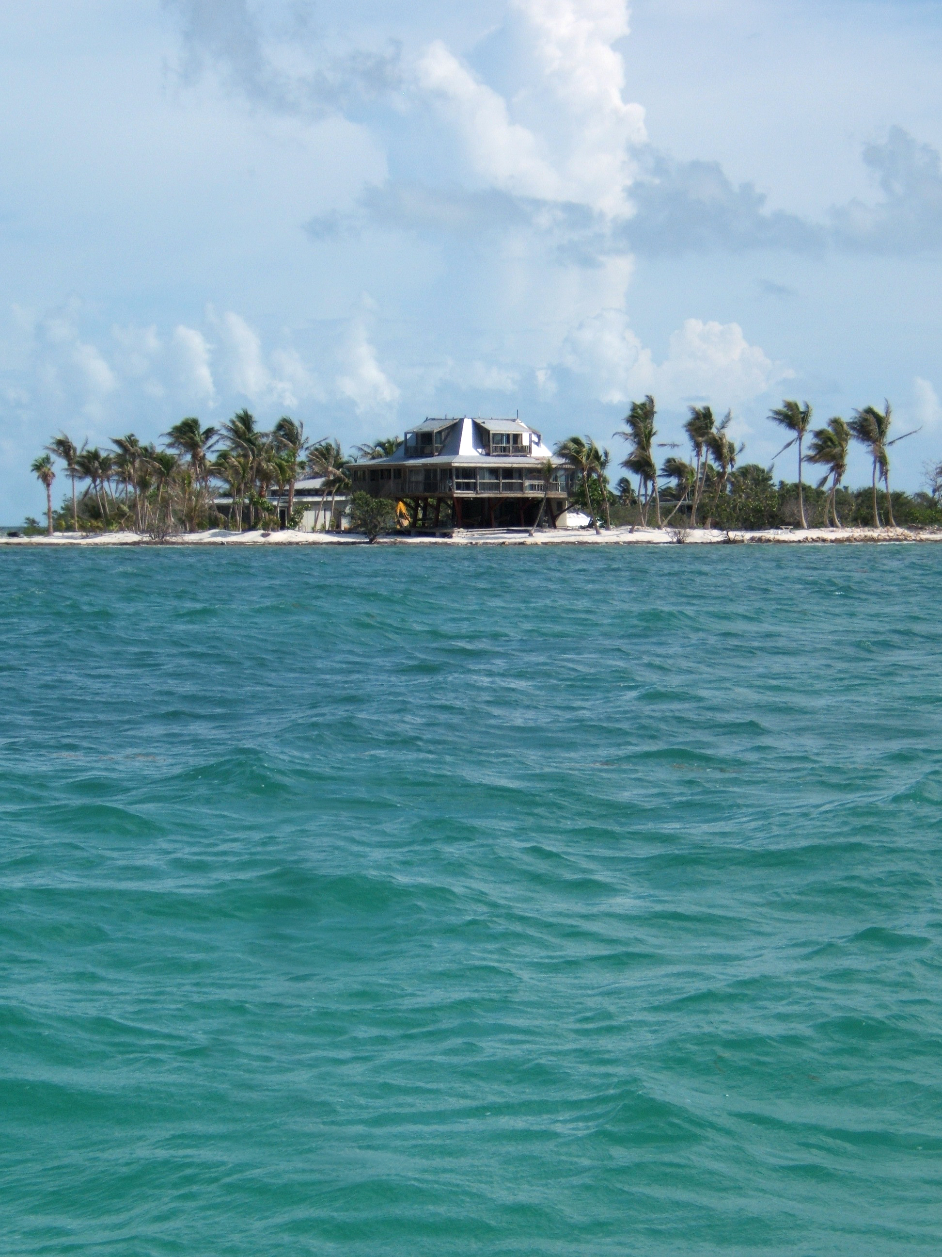 Joe Schmidt took this photo of Ballast Key while exploring the waters off Key West.